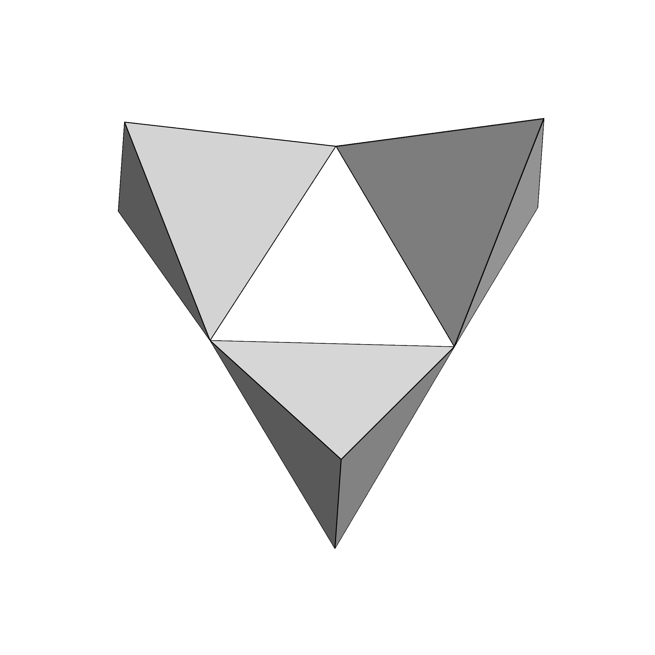 Unverzweigte dreier Einfachring des Benitoid Data from: Fisher, V. K. (1969): Verfeinerung der kristallstruktur von benitoit BaTi[Si3O9], Zeitschrift fur Kristallographie 129, pp. 222-243 Calcualtion of image data: Larry W. Finger, Martin Kroeker, and Brian H. Toby, DRAWxtl, an open-source computer program to produce crystal-structure drawings, J. Applied Crystallography V40, pp. 188-192, 2007 Rendering: POVRAY